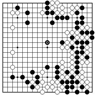 Honinbo Shusaku's ear-reddening move.